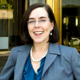 Fall 2011